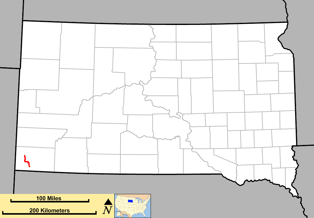 Route (in red) of South Dakota Highway 471 in the United States.